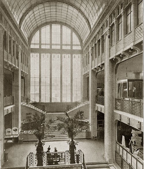 The Voentorg building in Moscow